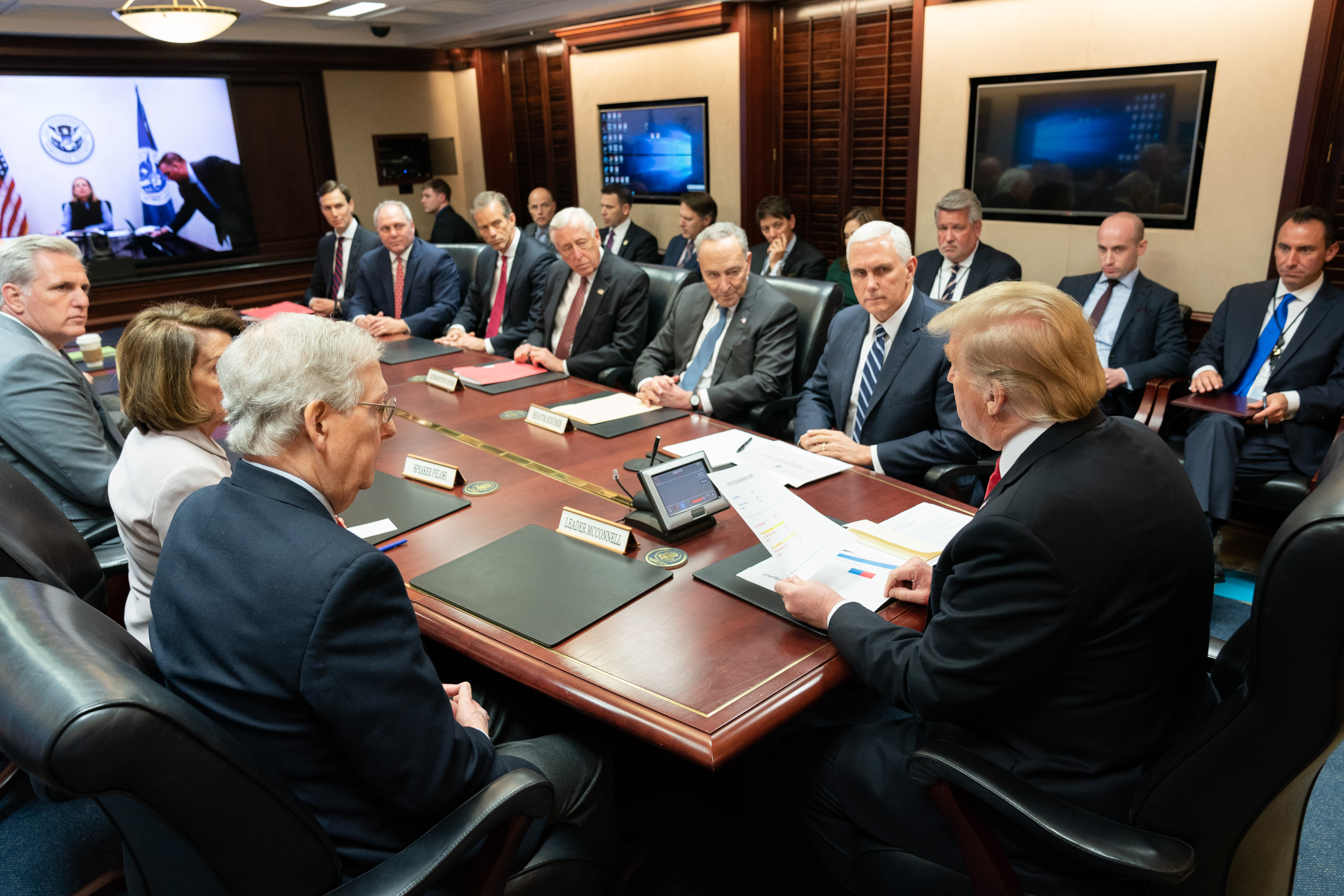 President Donald J. Trump, joined by Vice President Mike Pence, meets with Republican and Democratic legislative leadership Wednesday, January 2, 2019, in the Situation Room. (Official White House Photo by Shealah Craighead)